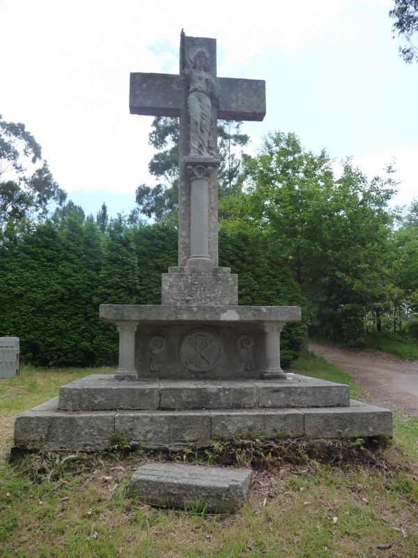 FOTO CRUCEIRO